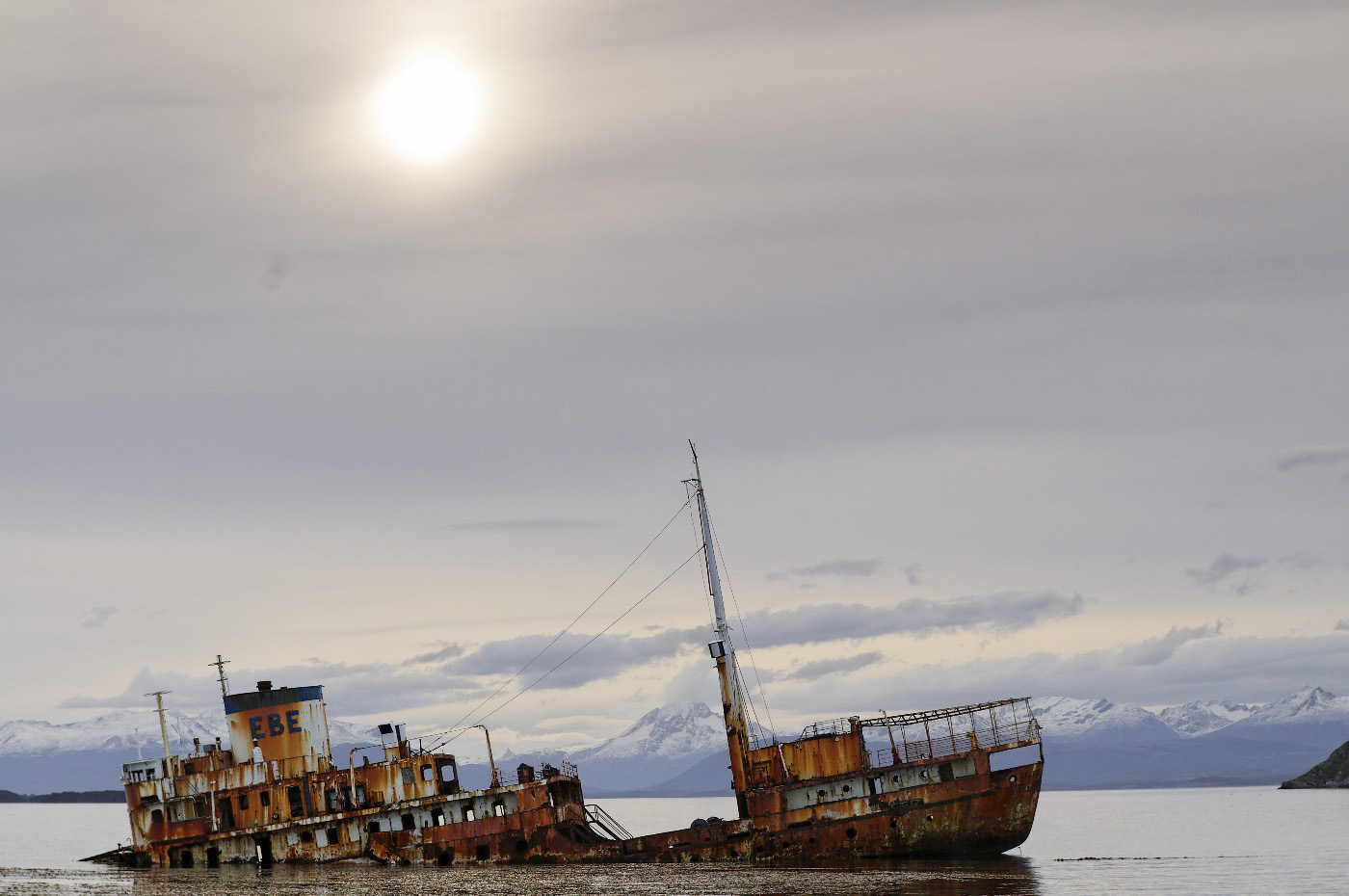 MV Logos ex MV Umanak in Beagle Canal; wrack; beagle canal